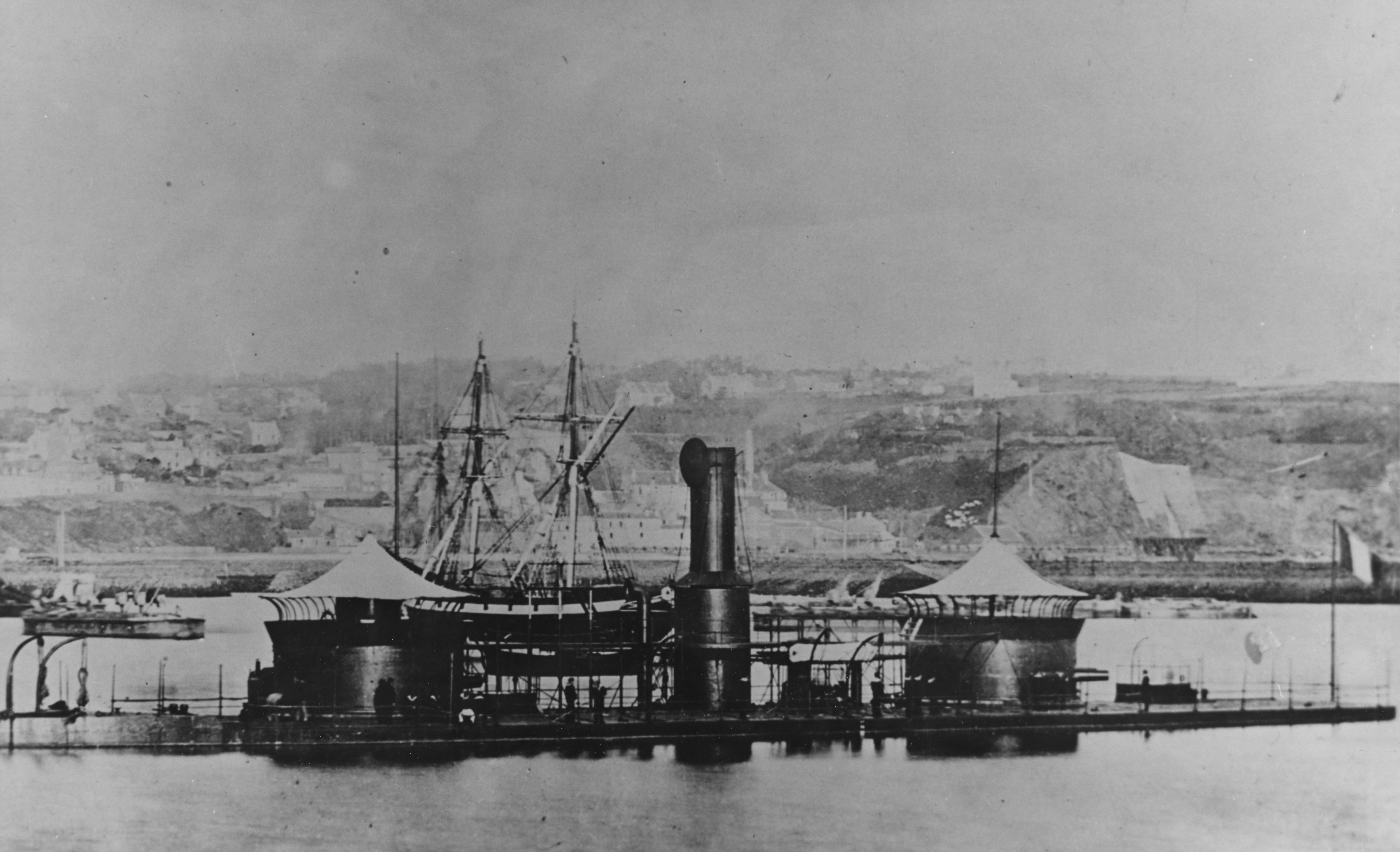 " (French Coast-Defense Monitor, 1867) At Brest, France, circa the later 1860s or the 1870s. She was originally the USS Onondaga, commissioned in 1864 and sold to France in 1867. Courtesy of William H. Davis. U.S. Naval History and Heritage Command Photograph." This version has been cropped, slightly rotated and saved to jpg format by uploader.